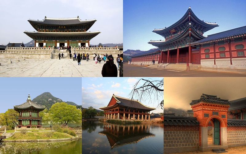 Geunjeongjeon, Yeongjegyo,Hyangwonjeong, Gyeonghoeru and gate in front of Hamhwadang are part of Gyeongbokgung